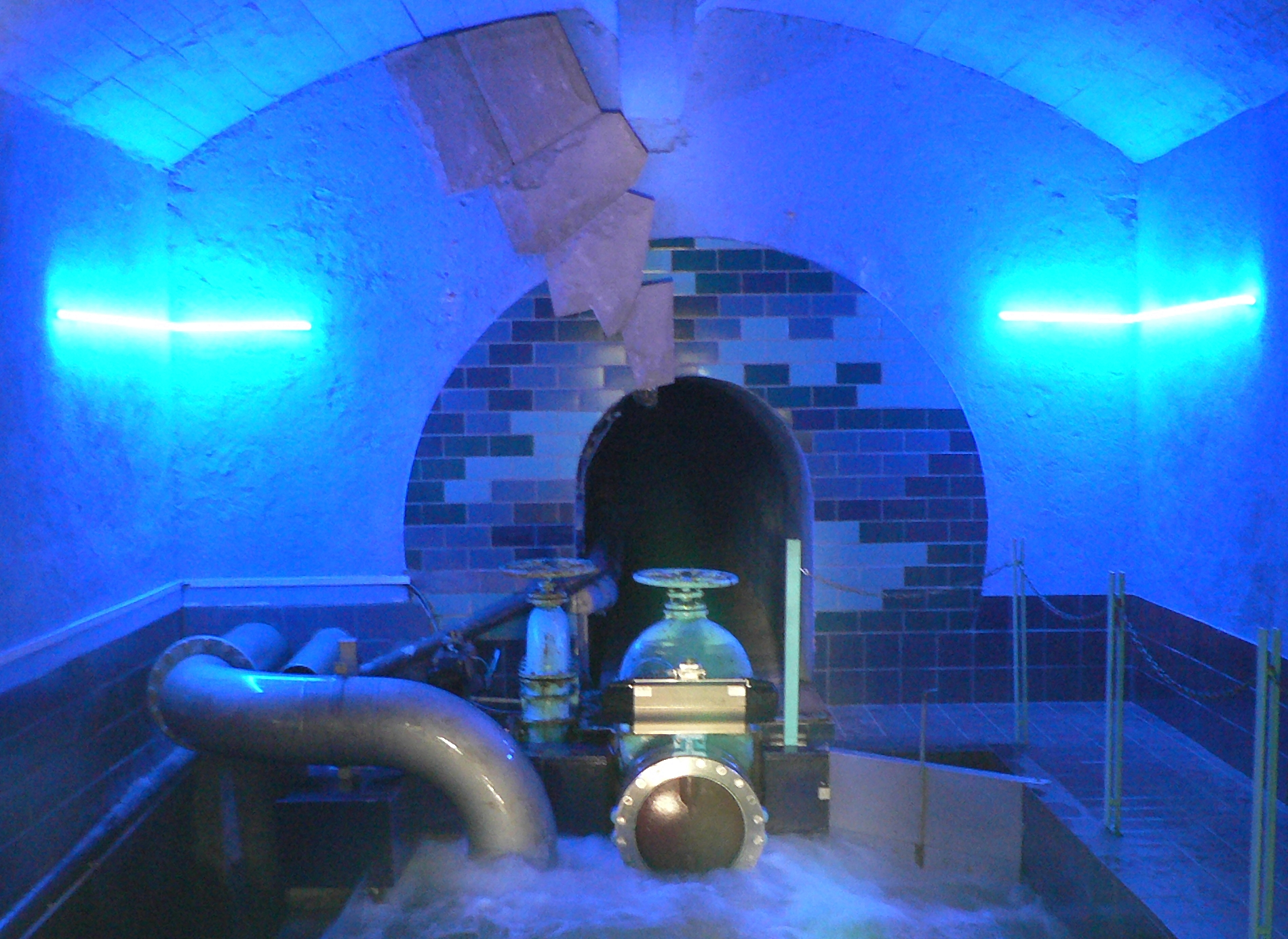 Volvic spring.